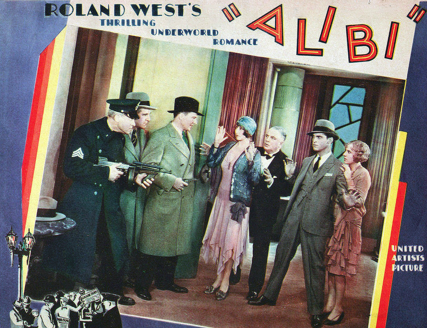 Lobby card for the American film Alibi (1929). The IMDb lists the actors in this lobby card as Mae Busch, Eleanor Griffith, Chester Morris, Pat O'Malley, Purnell Pratt, and Harry Stubbs.